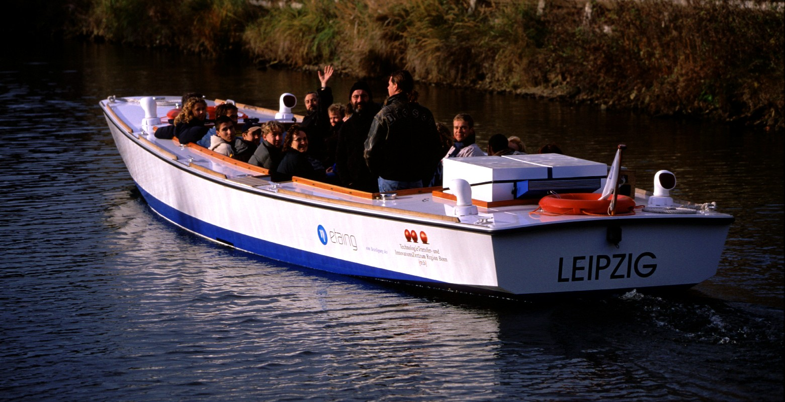 This is a photo of the world's first certified Fuel Cell Boat (HYDRA) realised by Christian Machens. It was taken in the Karl Heine Chanal in Leipzig, Germany in the year 2000.